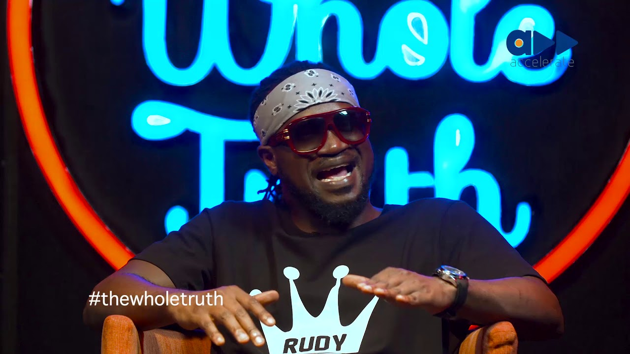 Paul Okoye 'Rudeboy' during an interview with Accelerate TV